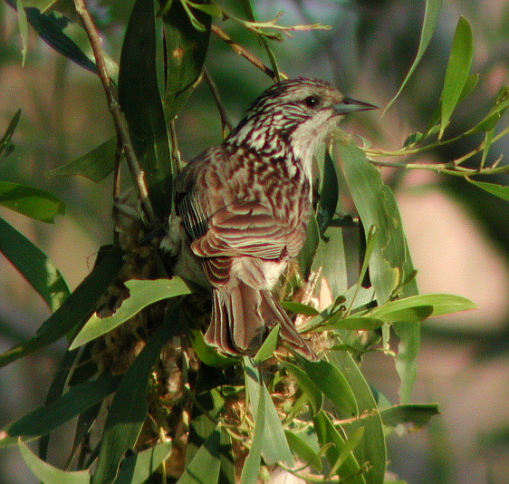 Striped Honeyeater Plectorhyncha lanceolata Samsonvale Cemetery, SE Queensland, Australia